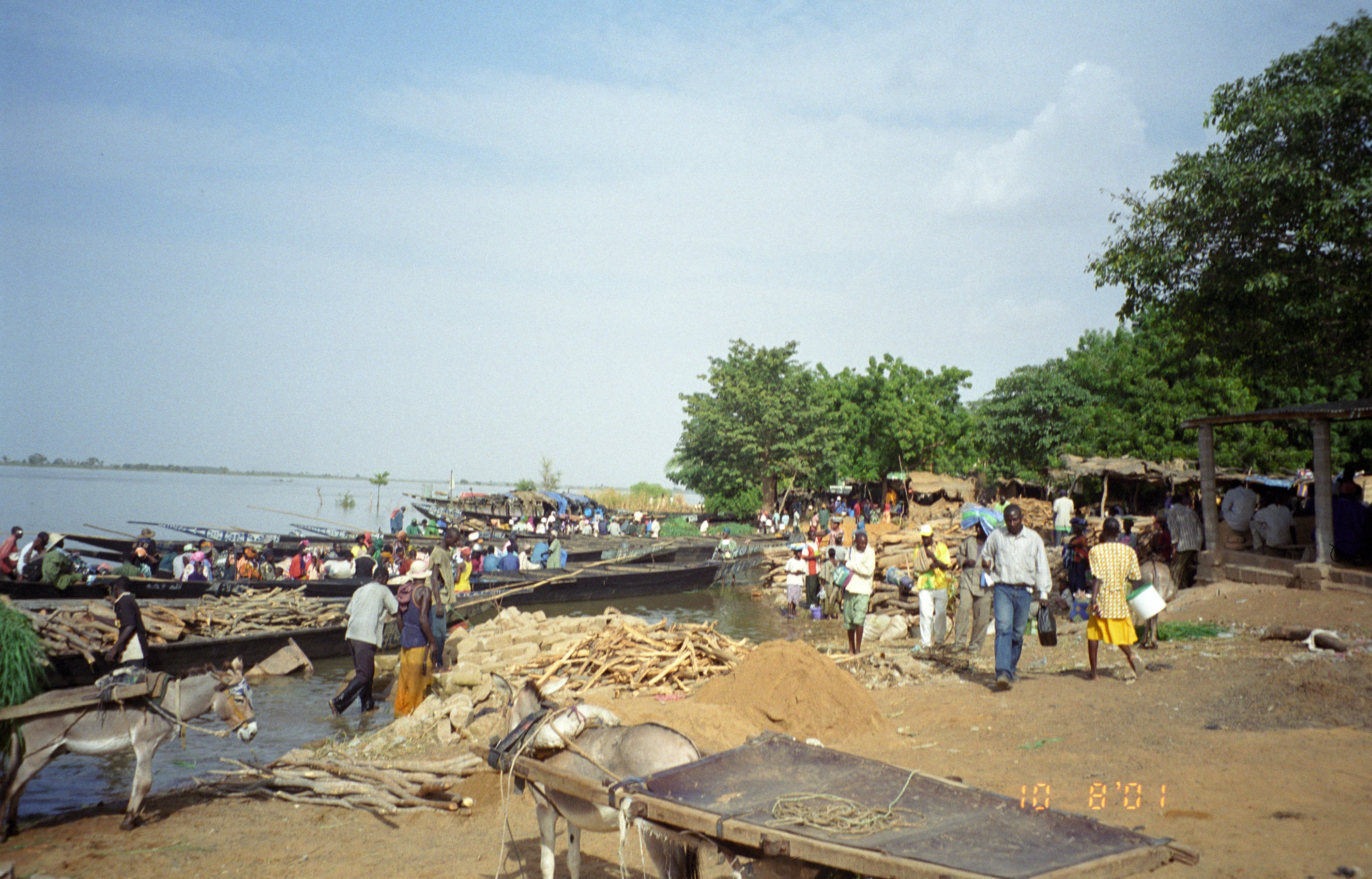 Market in Segou, Mali (held every monday). people from all over the surrounding area set up a blanket of goods on the ground near the banks of the niger. it's hard to get across from the photo how big it was, but it stretched endlessly along the shore across the town